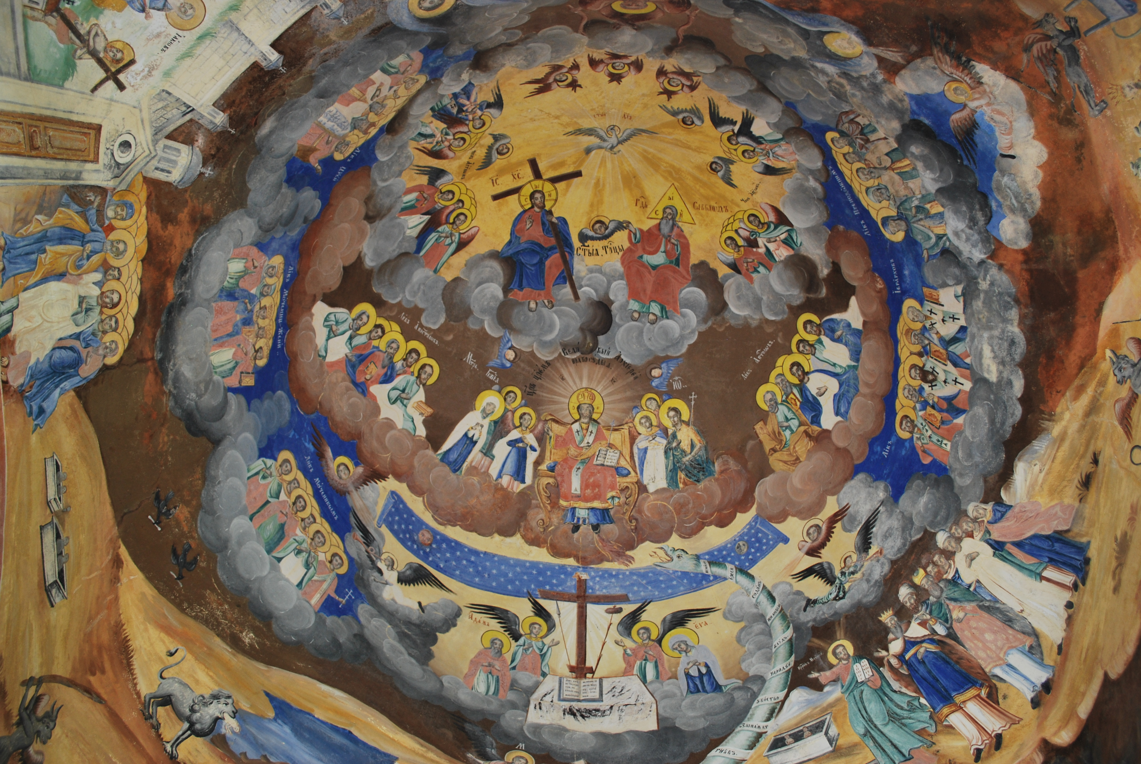 Frescoes in St. Joachim of Osogovo Church, Osogovo Monastery, Macedonia